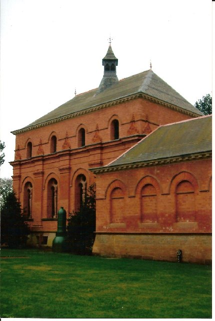 Papplewick Pumping Station